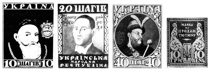 H.I.Narbut. Projects of stamps UPR